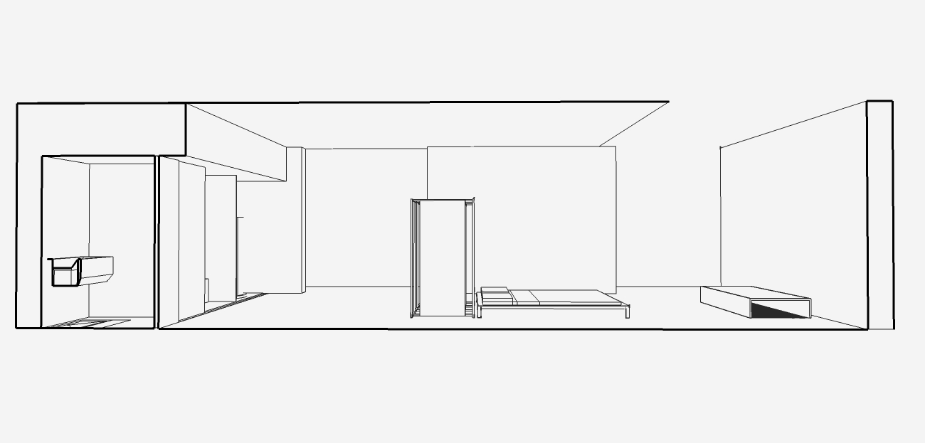 Sez 3 Modello parte notturna di un'abitazione